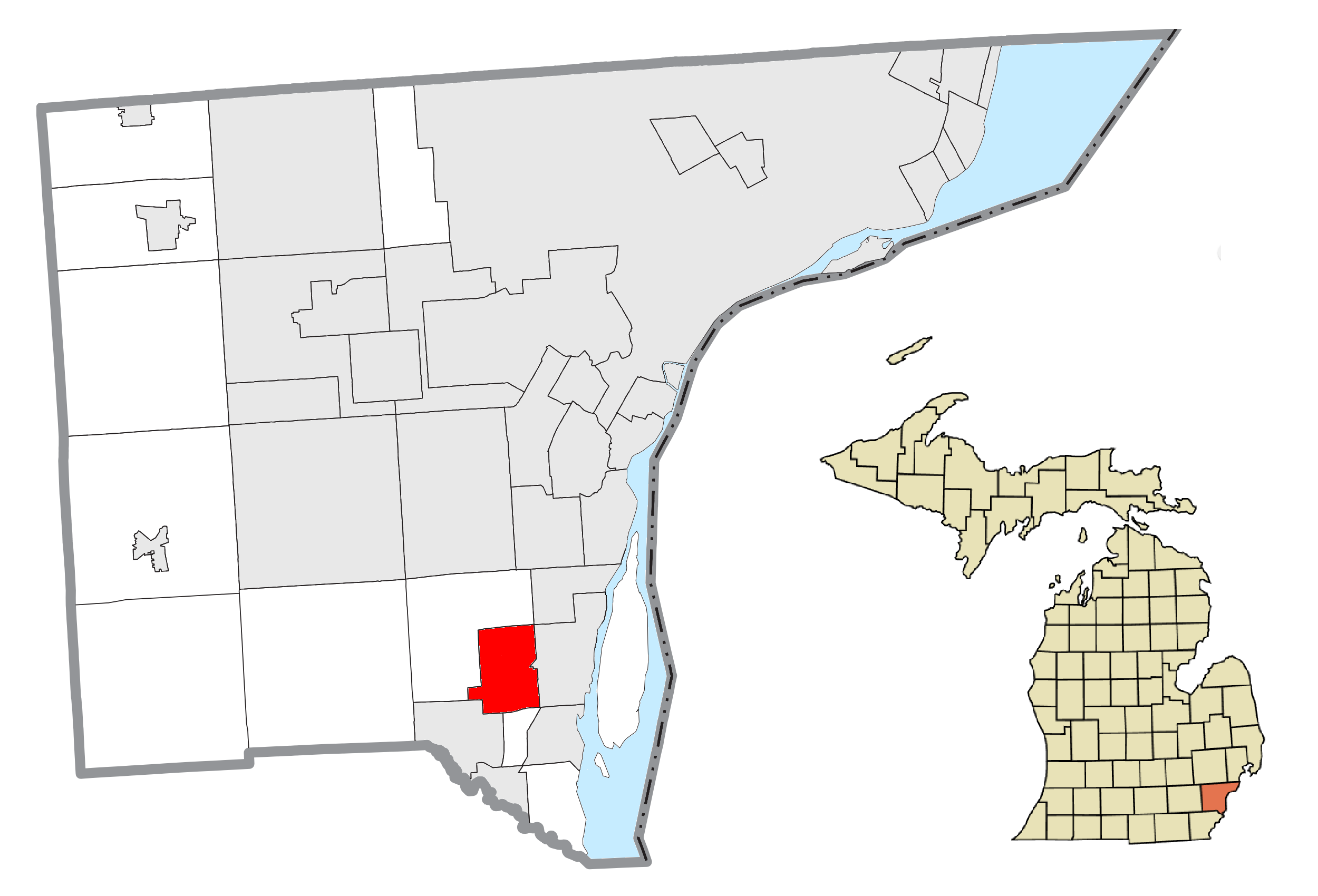 Woodhaven, MI